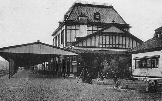 Nagasaki Station in Taisho and Pre-war Showa eras